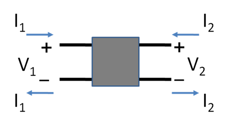 Diagram showing a two-port circuit and the voltages and currents at the ports. It illustrates the port condition: to qualify as a port each pair of terminals must have equal current entering one terminals as is leaving the other terminal.